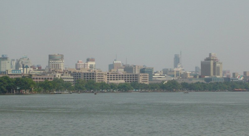 Hangzhou seen from across West Lake.